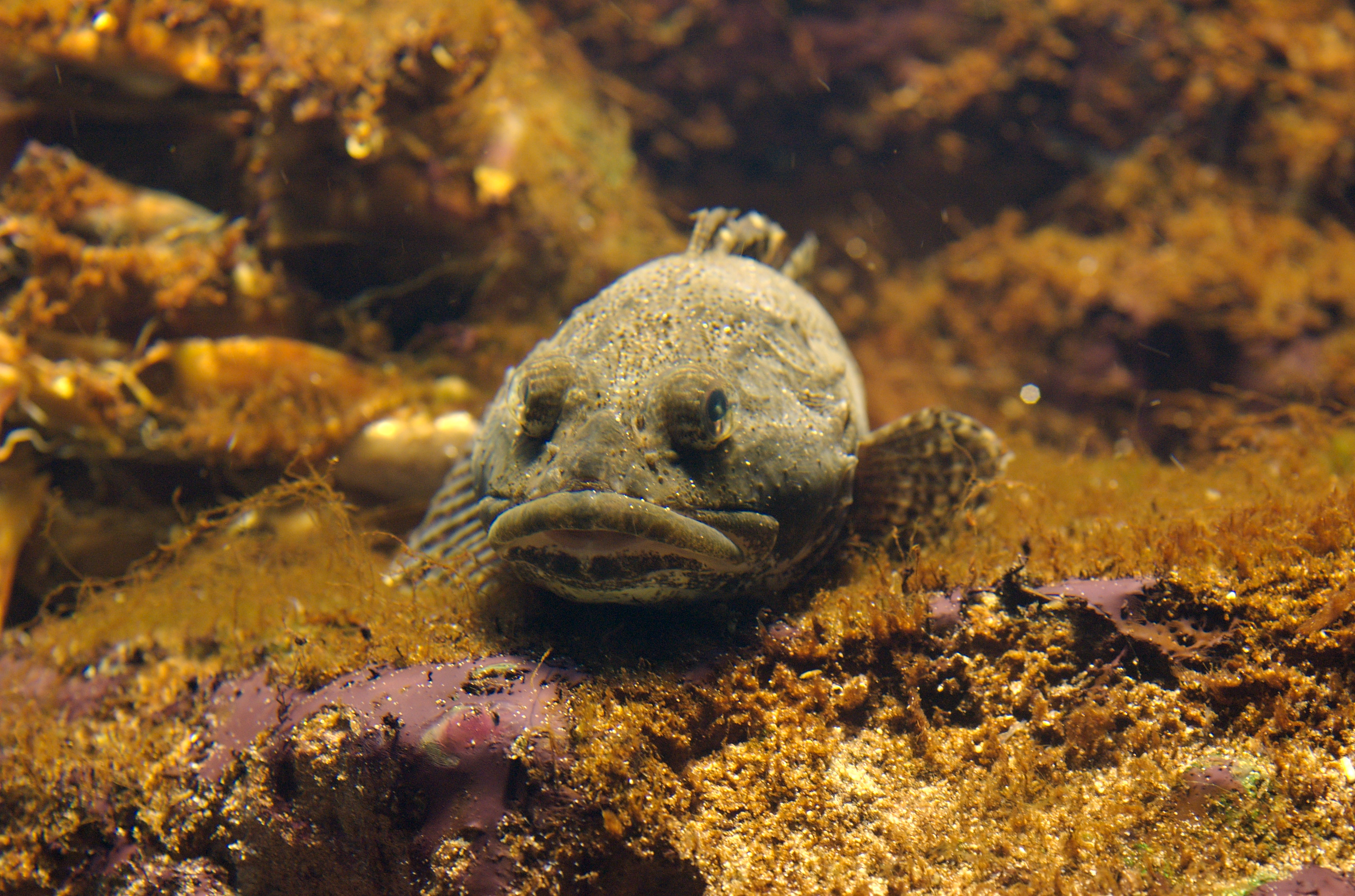 Father Lasher (Myoxocephalus scorpius)